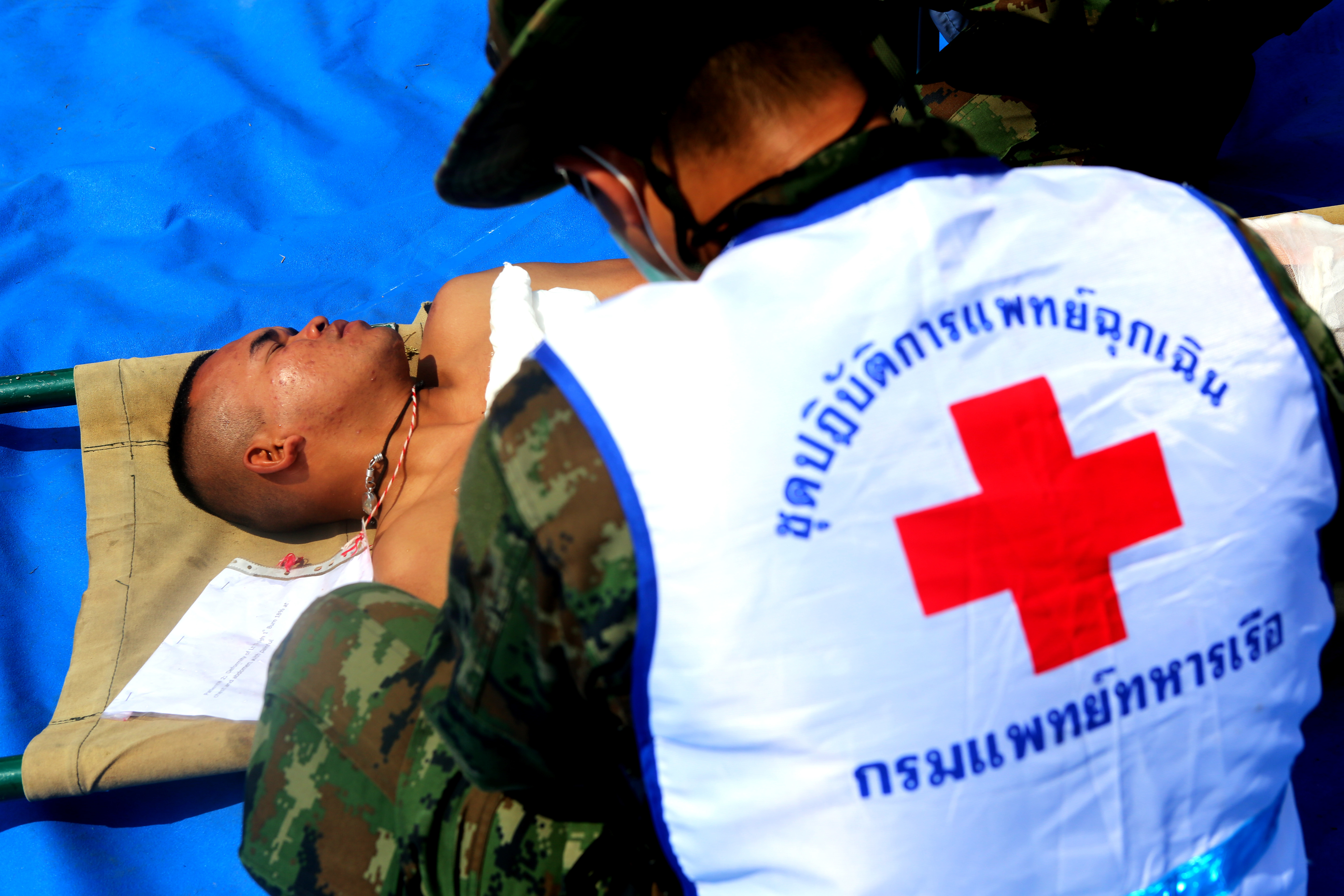 A Royal Thai Marine medical examiner prepares a simulated casualty for evacuation by ambulance during exercise Cobra Gold’s Chemical, Biological, Radiological, and Nuclear response training Feb. 16 at Camp Samaesan, Kingdom of Thailand. Cobra Gold is an annual training exercise designed to improve security and response capabilities within the region. (U.S. Marine Corps photo by Cpl. Joshua Murray/RELEASED)